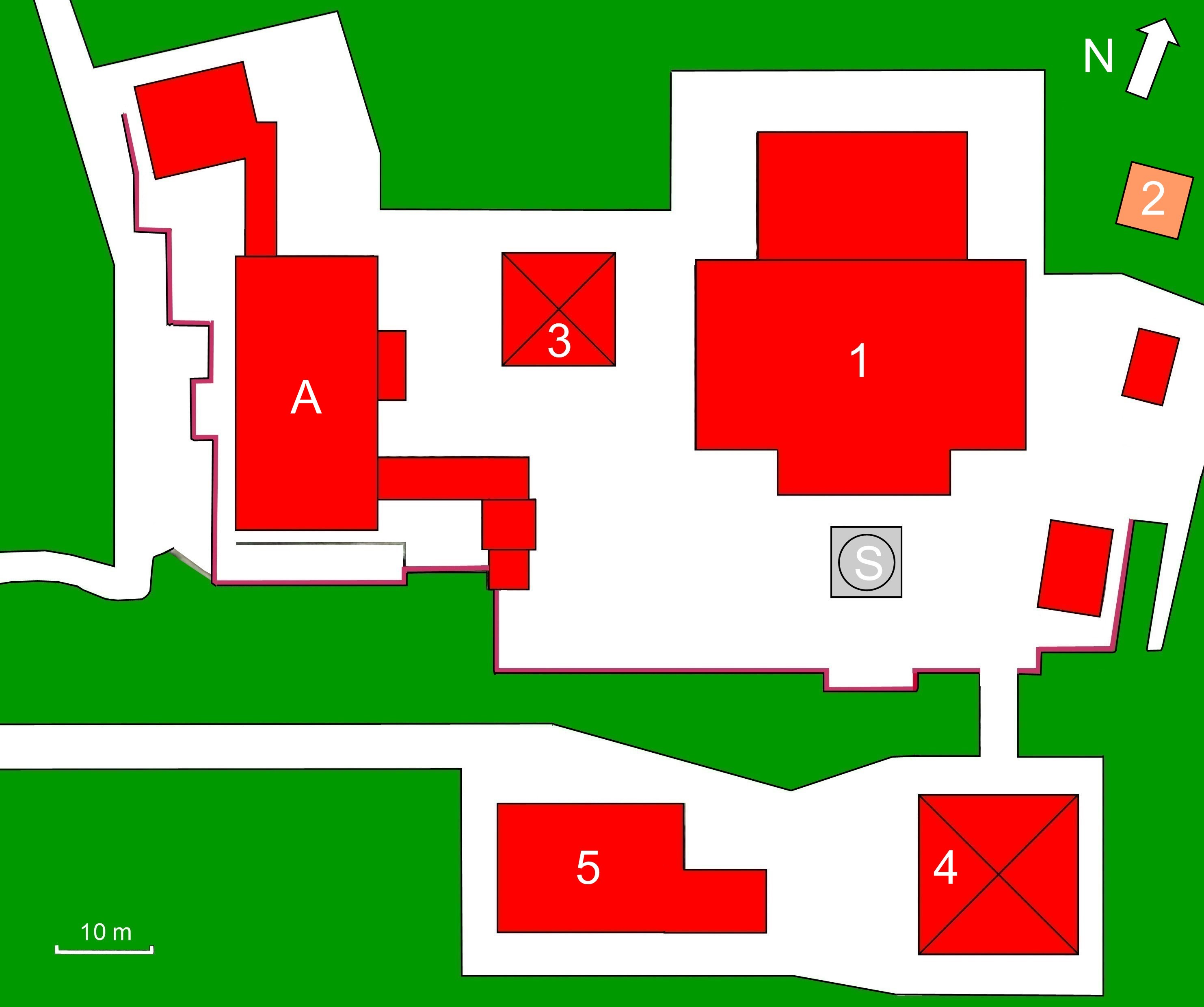 Layout of Kurama-dera, a temple in the North of Kyôtô, Japan